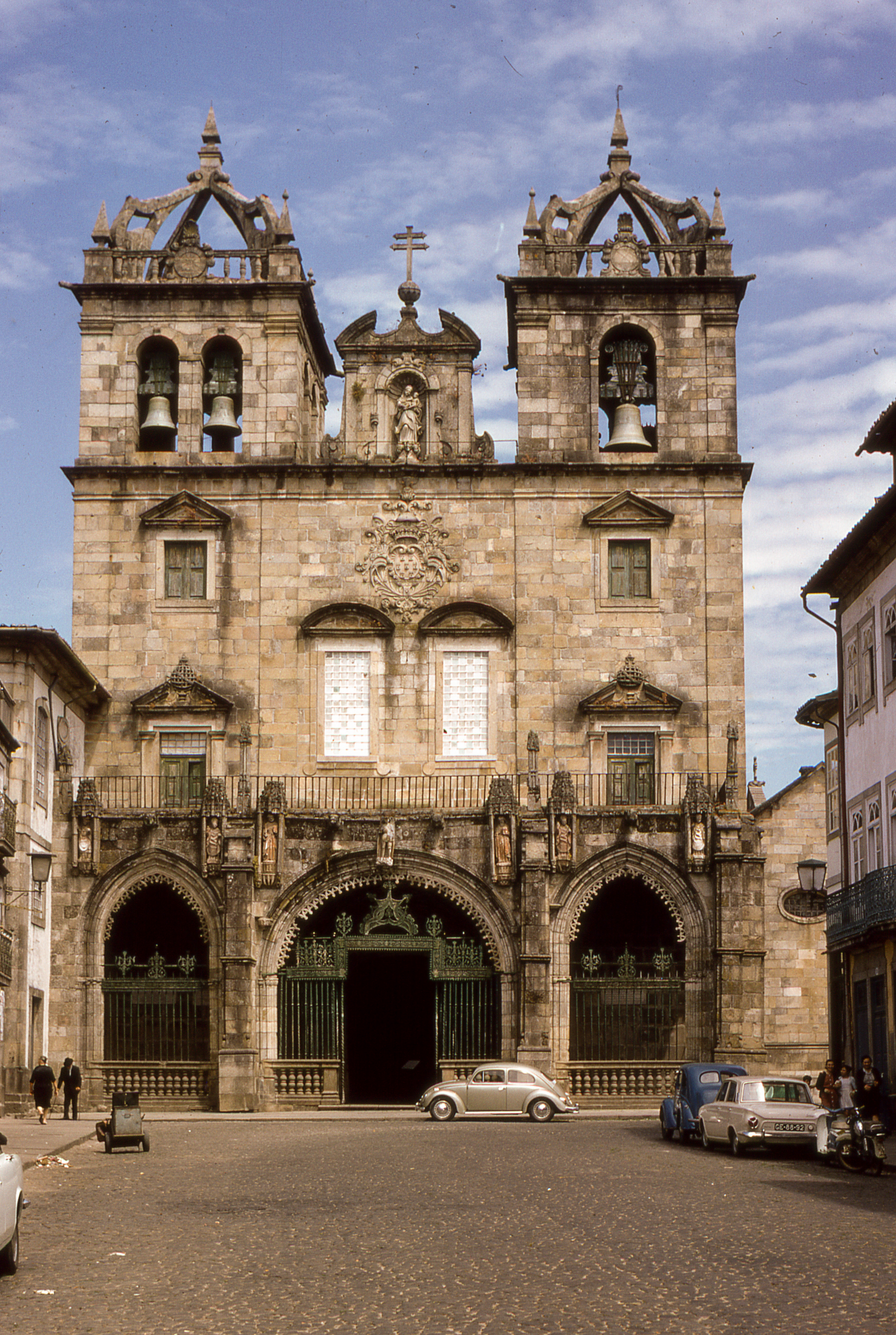 Braga's cathedral.